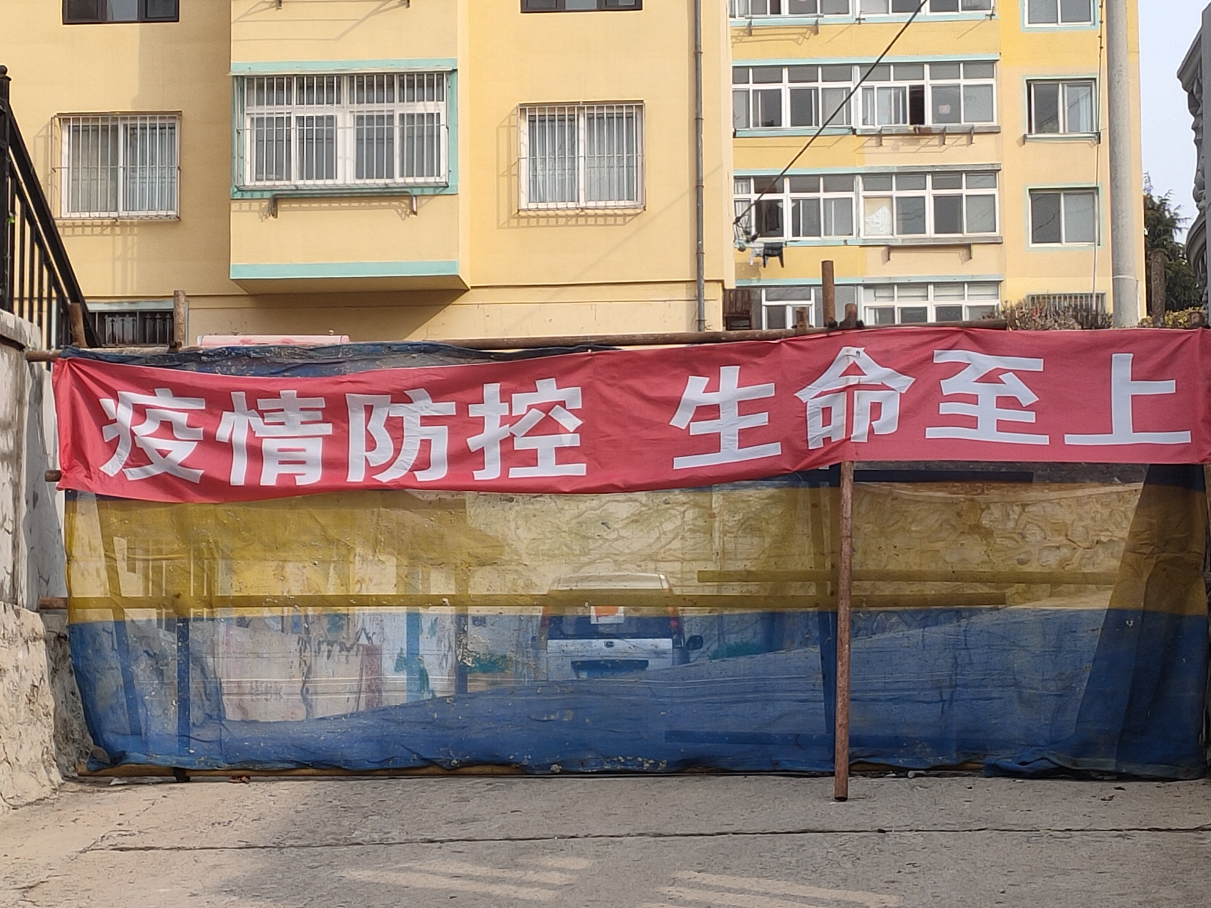 This slogan translates into English as "Control the Disease. Life Lies First".